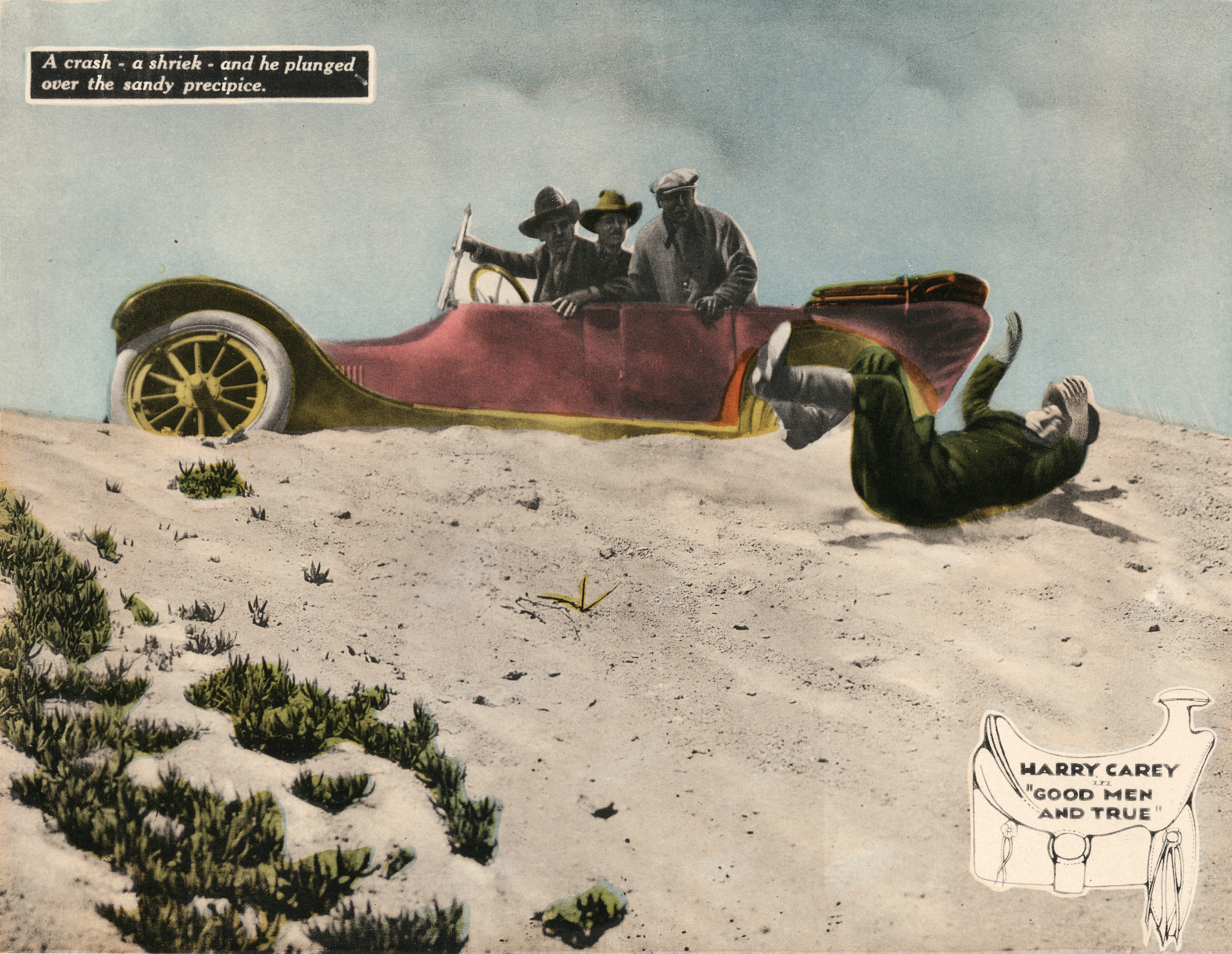 Lobby card for the 1922 silent film Good Men and True starring Harry Carey. Caption of card: "A crash - a shriek - and he plunged over the sandy precipice." approx. 35.5 x 27.5 cm. Part of: Western silent films lobby card collection, 1912-1930. Yale Collection of Western Americana, Beinecke Rare Book & Manuscript Library, Yale University, Bibliographic Record Number 2019871. View our Record: Permalink